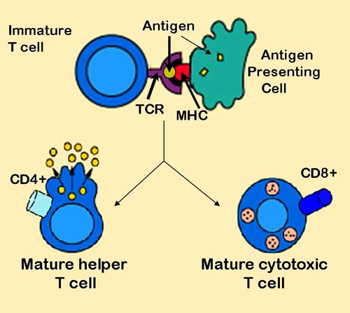 Antigen presentation stimulates T cells to become either "cytotoxic" CD8+ cells or "helper" CD4+ cells. Cytotoxic cells directly attack other cells carrying certain foreign or abnormal molecules on their surfaces. Helper T cells, or Th cells, coordinate immune responses by communicating with other cells. In most cases, T cells only recognize an antigen if it is carried on the surface of a cell by one of the body’s own MHC, or major histocompatibility complex, molecules.